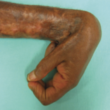 (A) Hypertrophic scars begin as small cutaneous fibrotic regions (arrowheads), which develop into gross scars (arrows) over time. Scarring phenotypes vary widely between different parts of the body for reasons that are at present unclear. (B) Following burn injury, a patient shows severe joint contracture. (C) Radiograph of the same patient shows erosion of the bone secondary to disuse and contracture. After years of treatment and physical therapy, this patient will only regain minimal hand function.